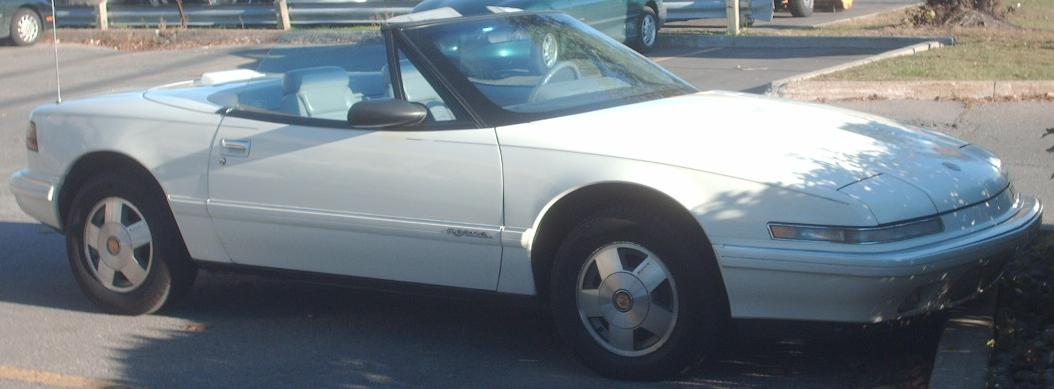 1990 Buick Reatta Convertible photographed in Montreal, Quebec, Canada.